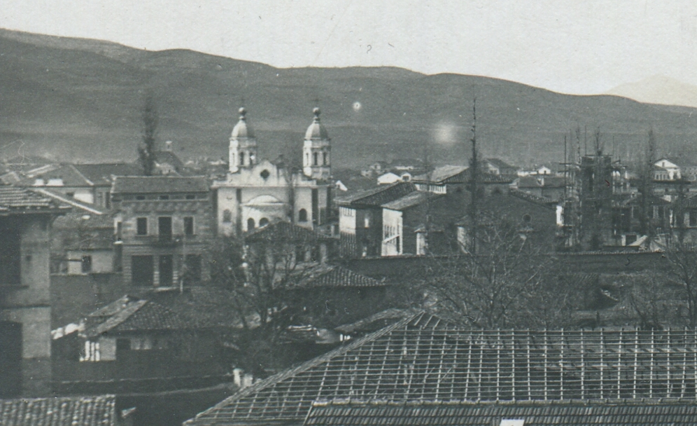 Црква „Св. Мина“ - Скопје 1914